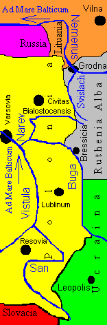 Rivers on the east border of Poland (San, Bug and Svislach) – map in latin